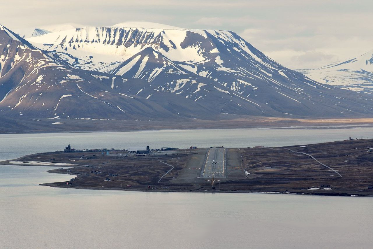 Svalbard Airport, Longyear